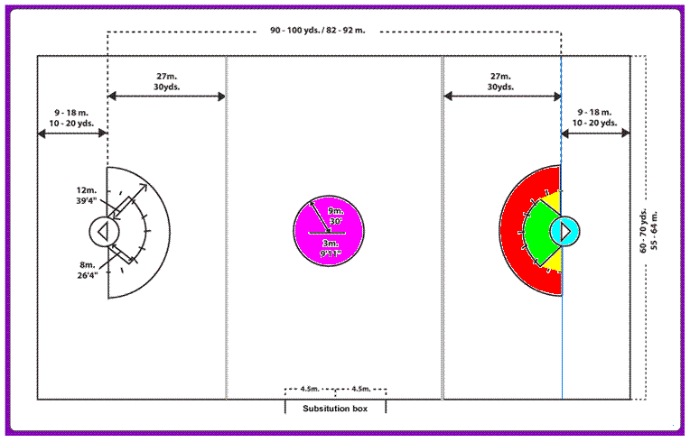 graphical description of women's lacrosse field.